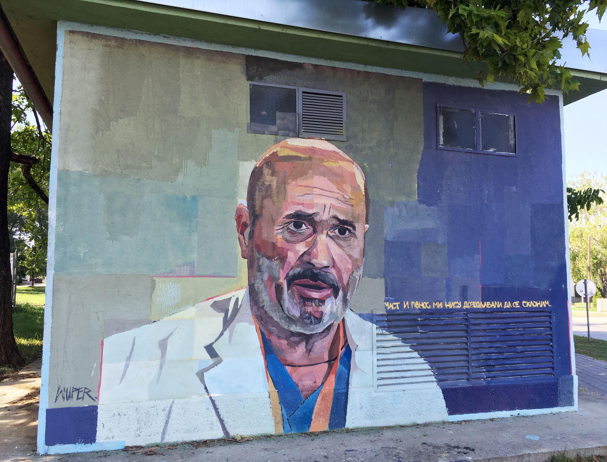 Mural dedicated to dr Lazić in Inđija